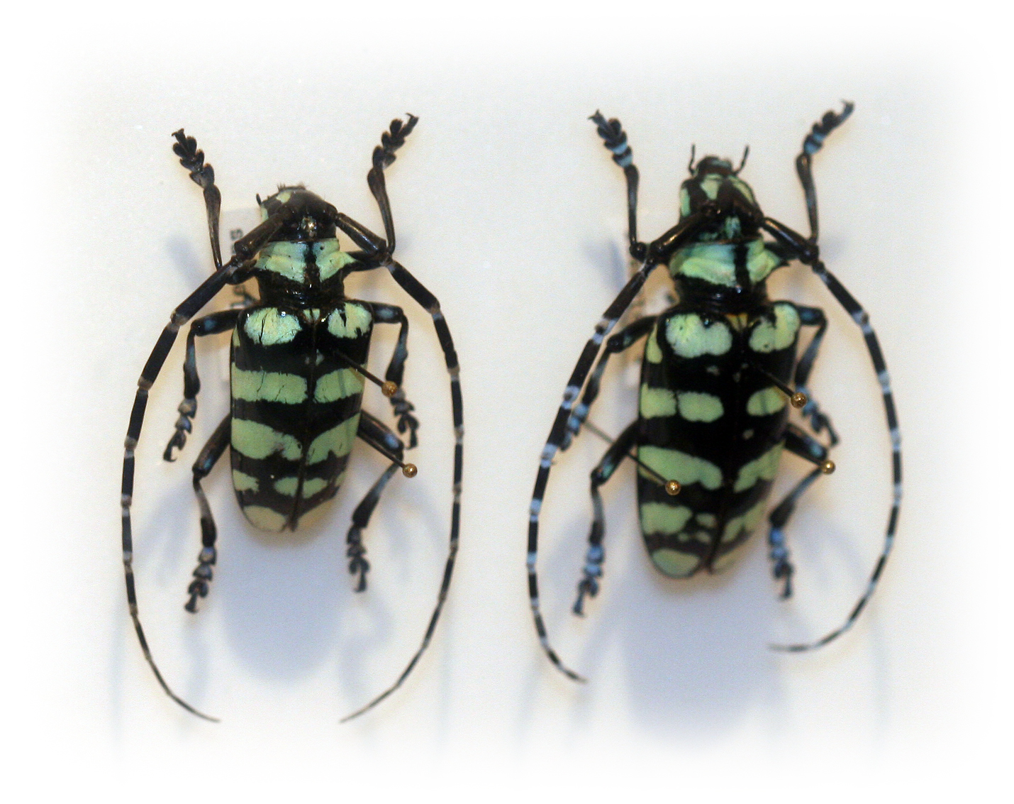 Anoplophora elegans (Thailandia)